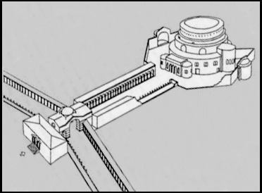 Saint George Rotunda and Arch of Galerius complex reconstruction basing on the scan from 19th century book